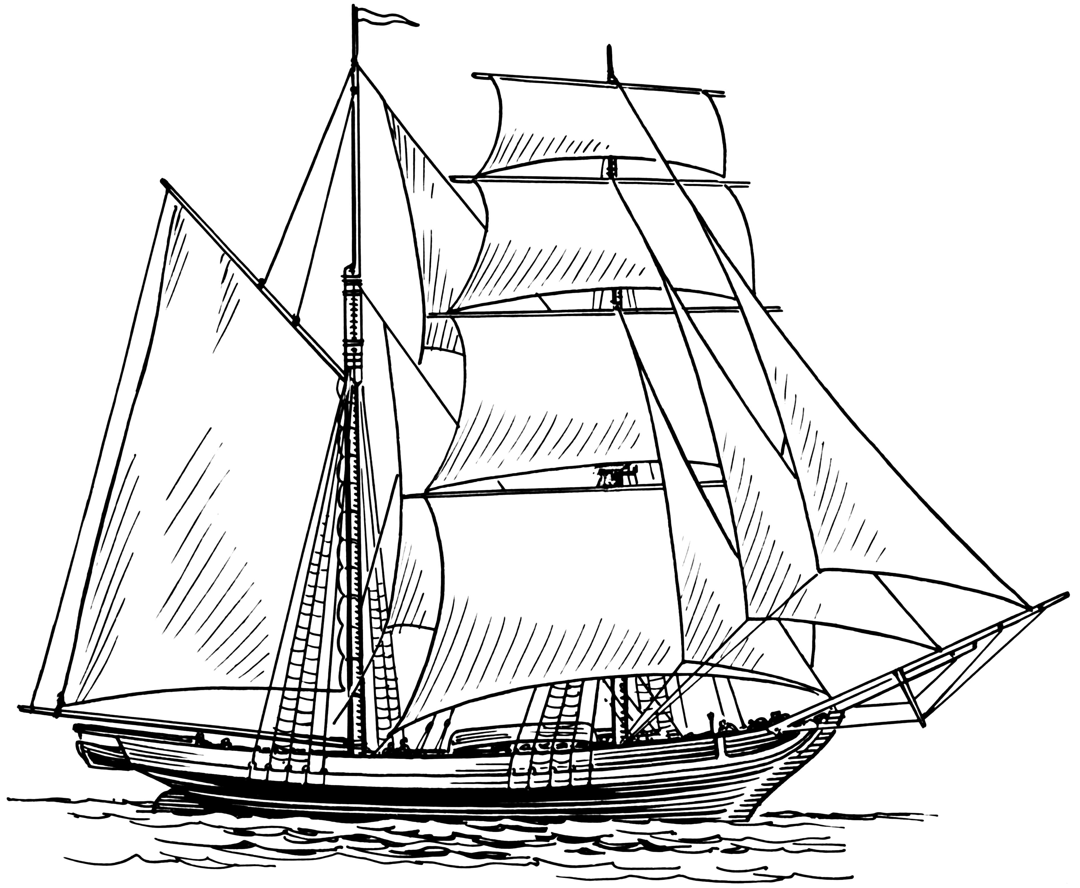 Line art of hermaphrodite brig.